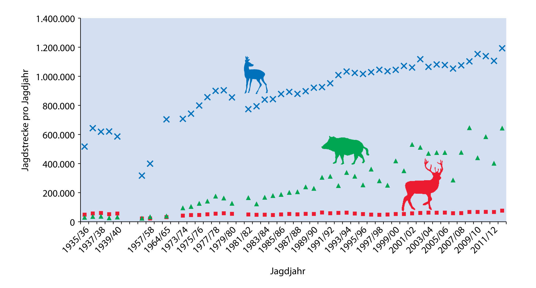 Annual hunting bag / hunting statistics of Capreolus capreolus (blue), Sus scrofa (green) and Cervus elaphus (red) in Germany between 1935-36 and 2012-13